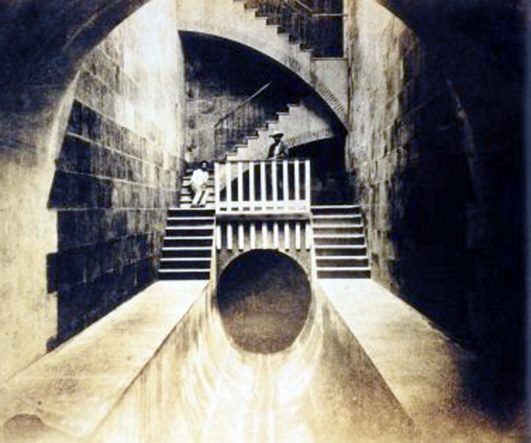 Albear Aqueduct, Havana, Cuba-1927 Photo.